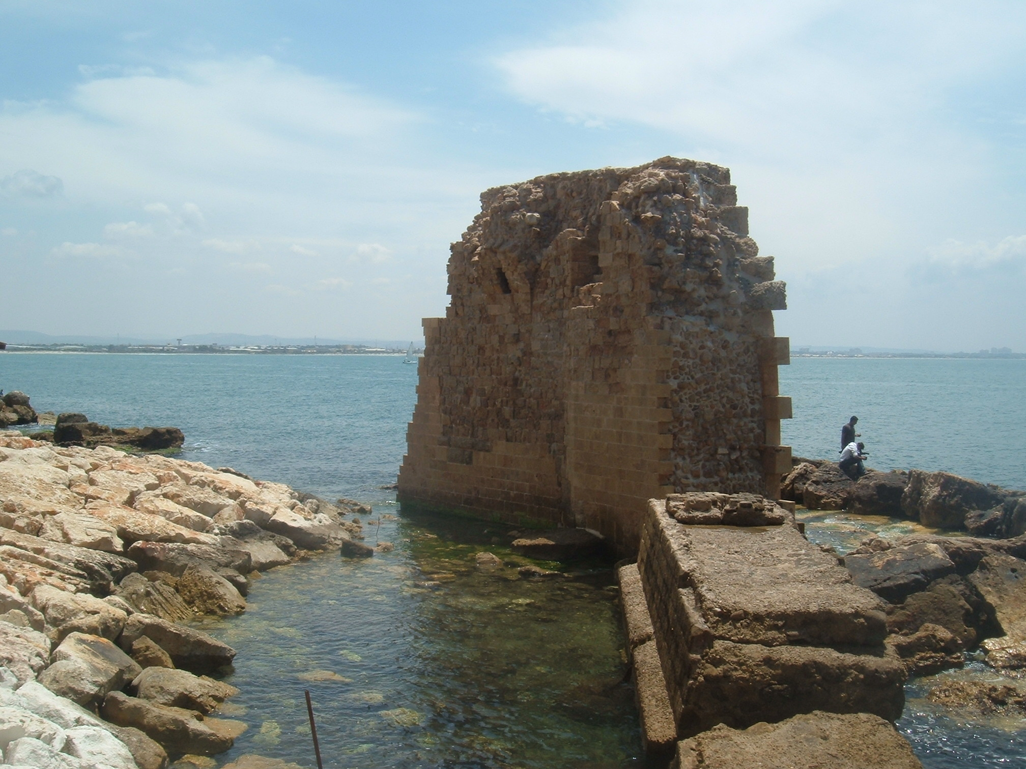 ruins in the pizani harbour in acre, Israel